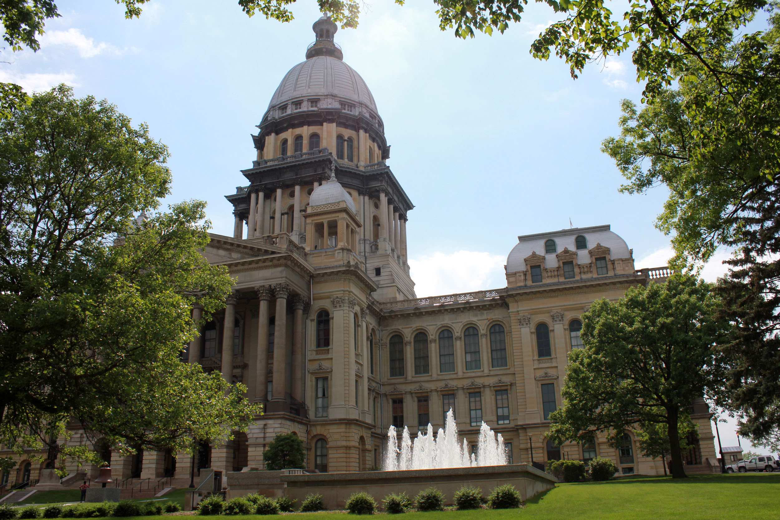 Pictures of the capital of Illinois, a city of roughly 117,000. A farther side view of the Springfield Capitol building